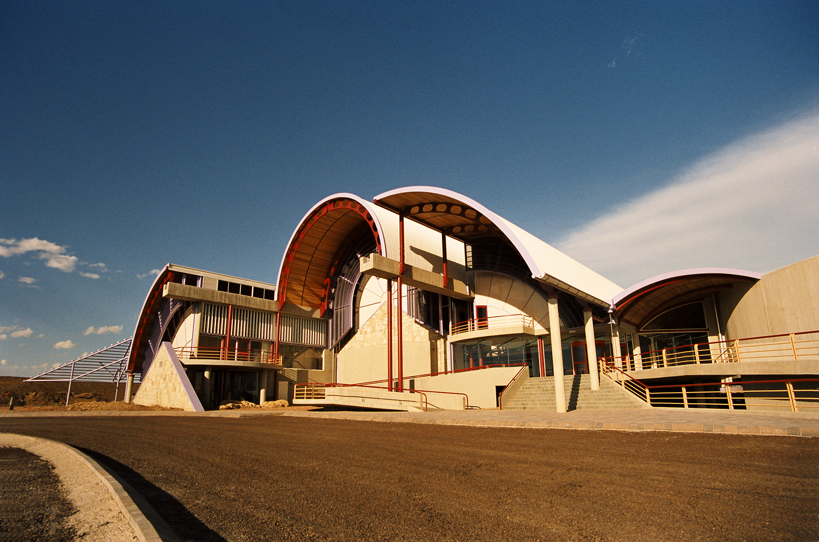 The Australian Stockman's Hall of Fame and Outback Heritage Centre, Longreach, Queensland, Australia. Architect Feiko Bouman